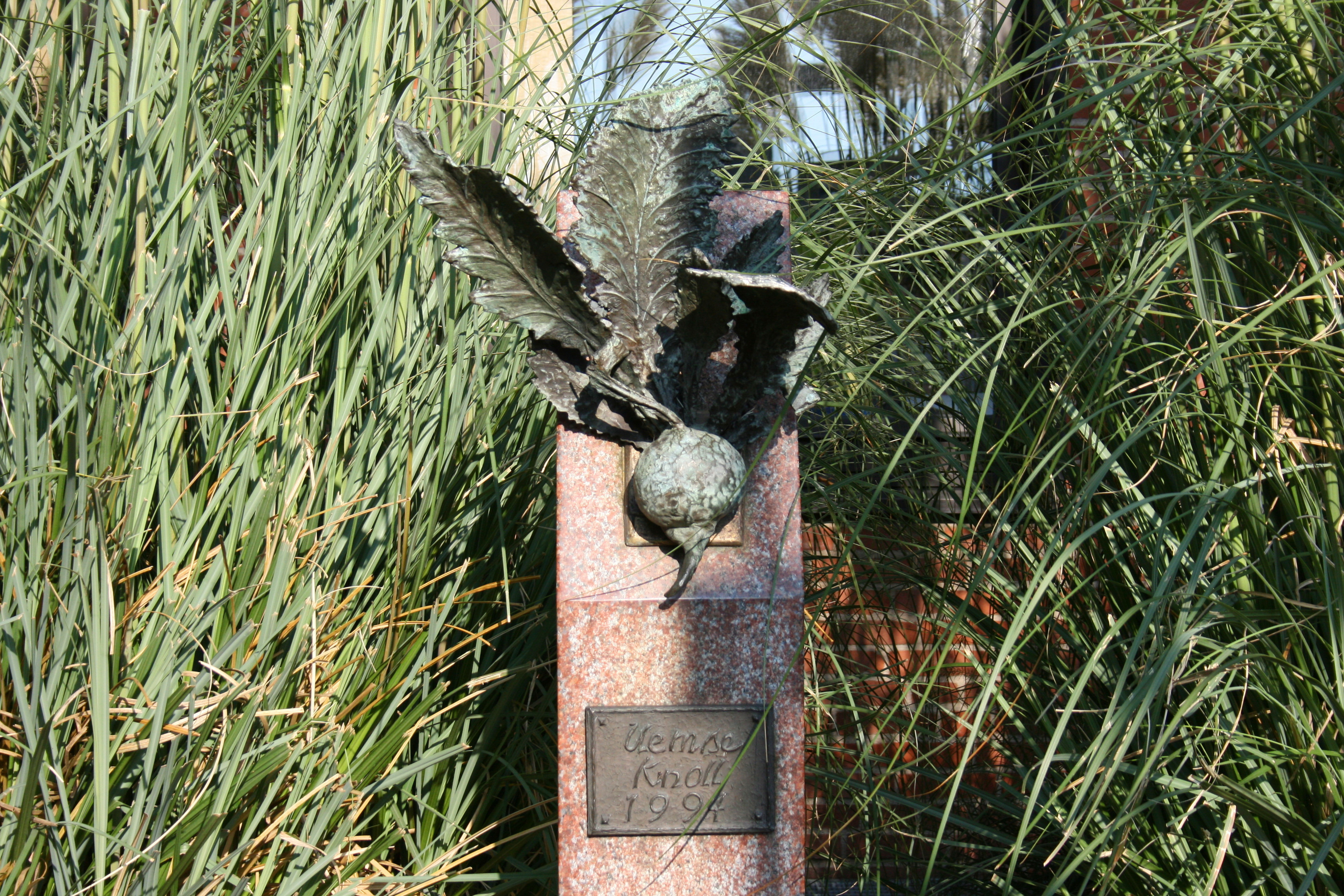 Probably the only memorial to the sugar beet Beta vulgaris Source: self-made Date: created 16. Dec. 2008 Author: Frank Vincentz Permission: GFDL (self made)